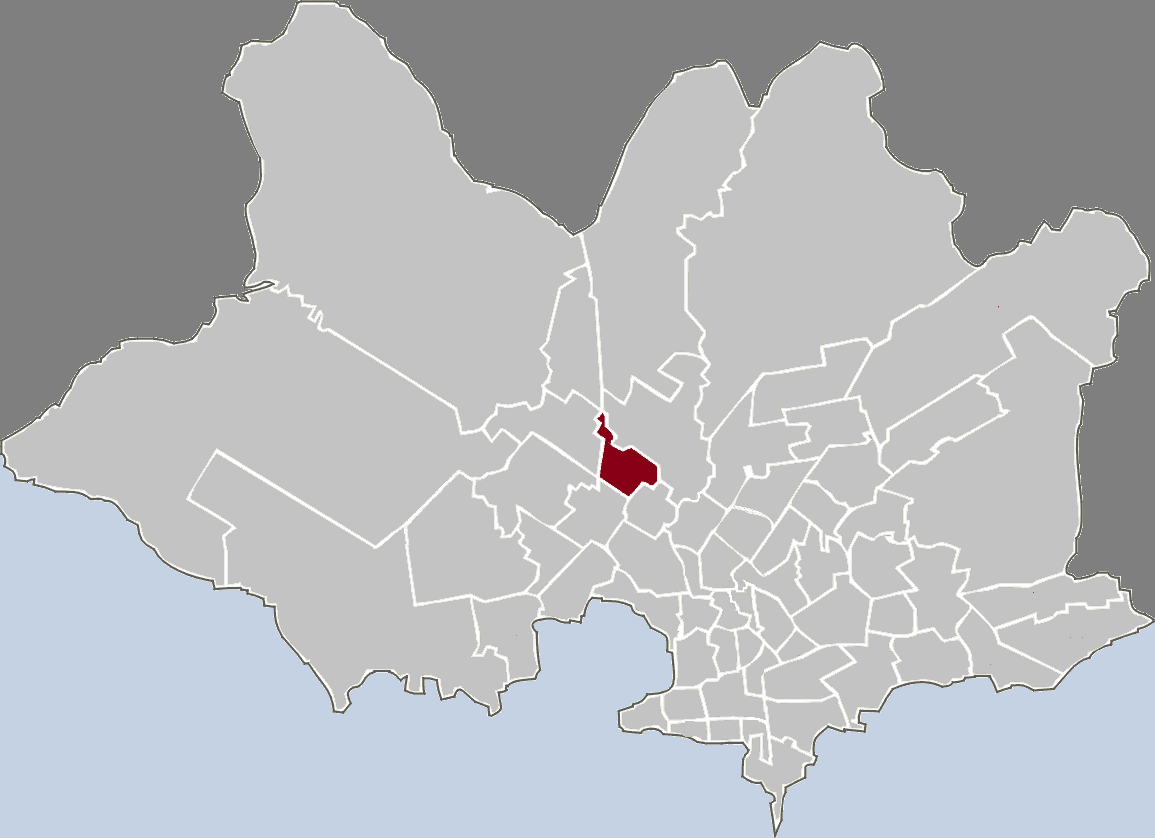 Map highlighting the given barrio in Montevideo.